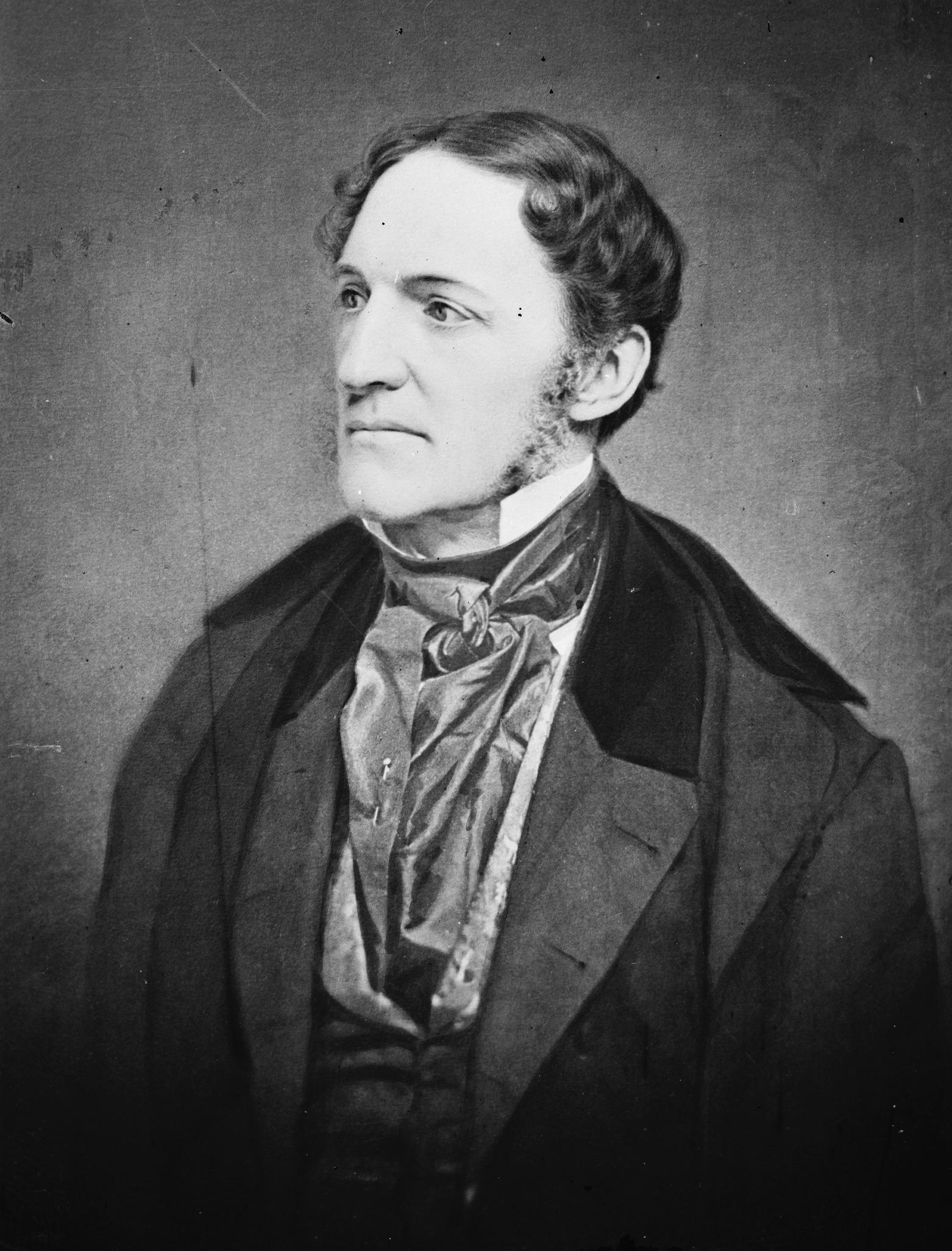 William H. Prescott. Library of Congress description: "Prescott, Wm. H. (Historian)".